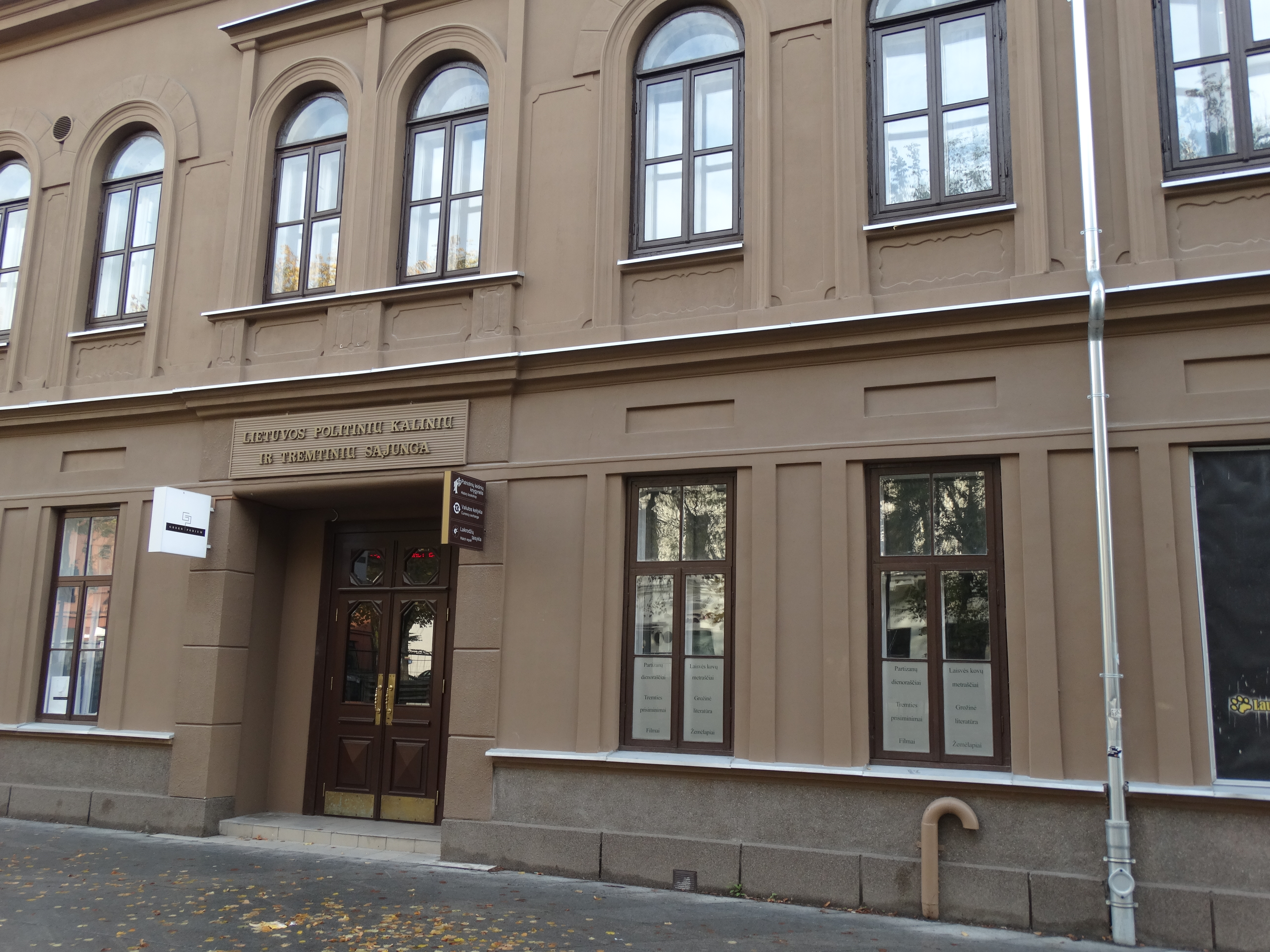 Union of Political Prisoners and Deportees, Kaunas, Lithuania